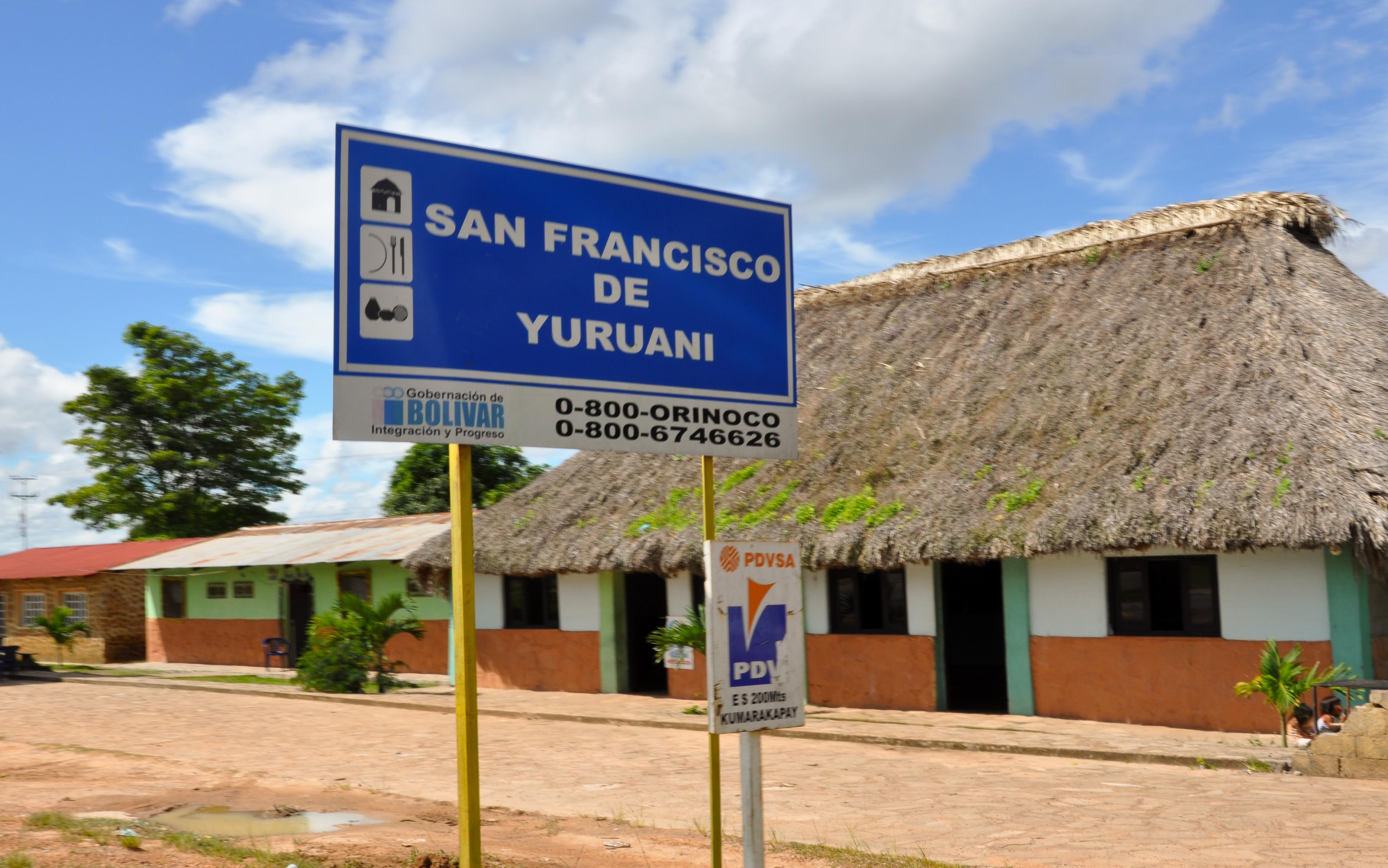 San Francisco de Yuruaní identification sign , in Gran sabana Venezuela